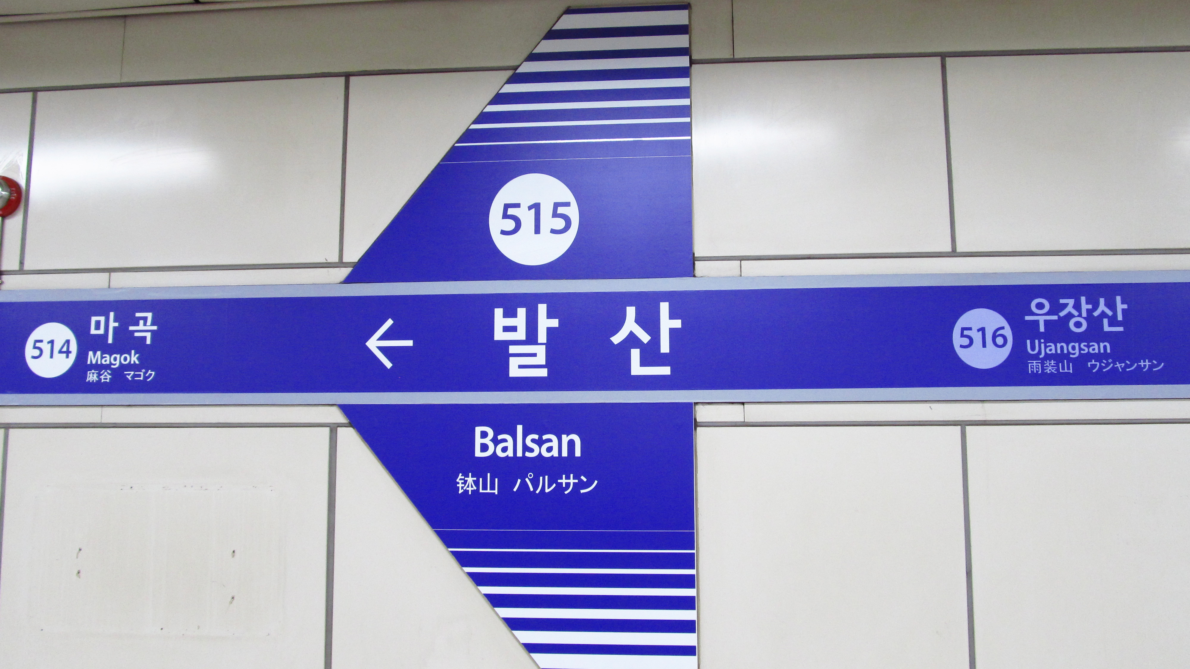 A sign of Balsan Station on Seoul Subway Line 5